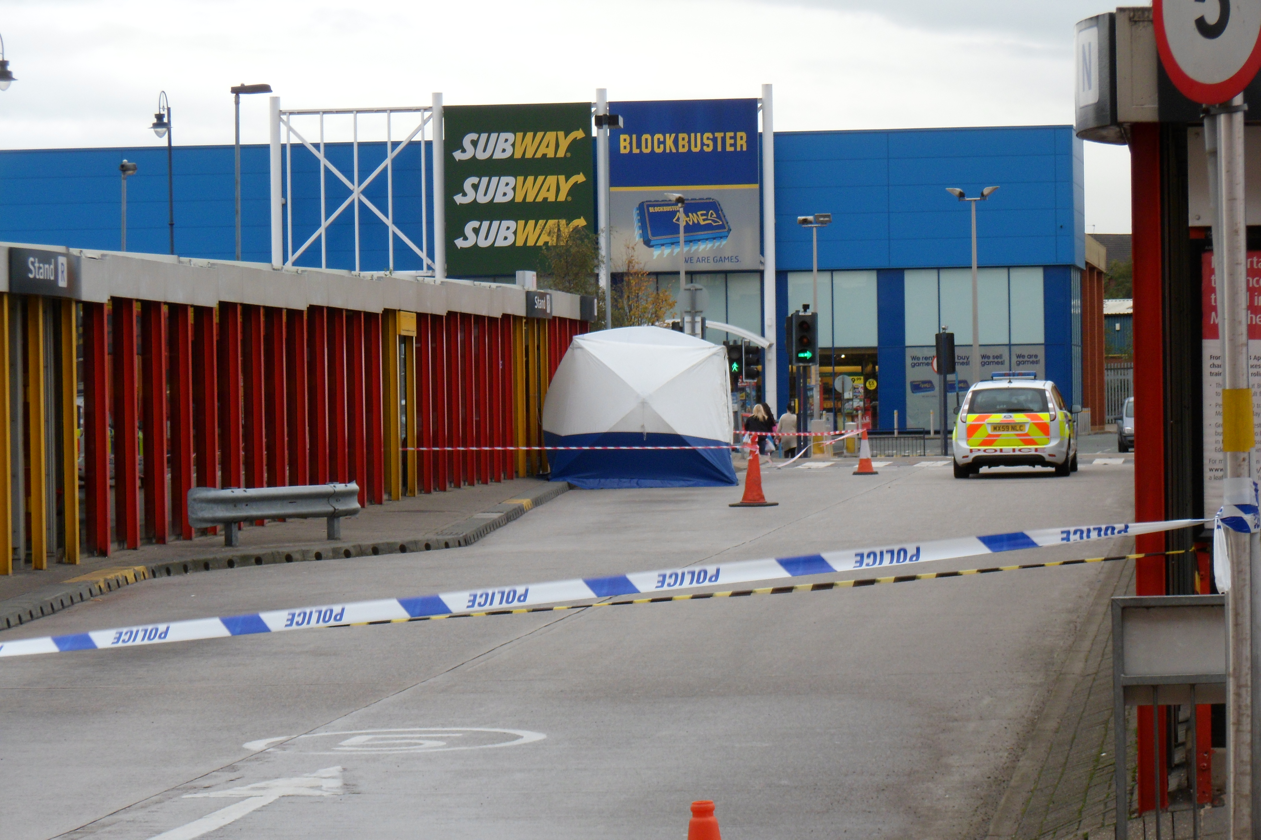 Death case on bus station in Ashton under Lyne (Greater Manchester, England) on 20th October 2011. Police forensic investigation with using of tent for to cover the found place of death body